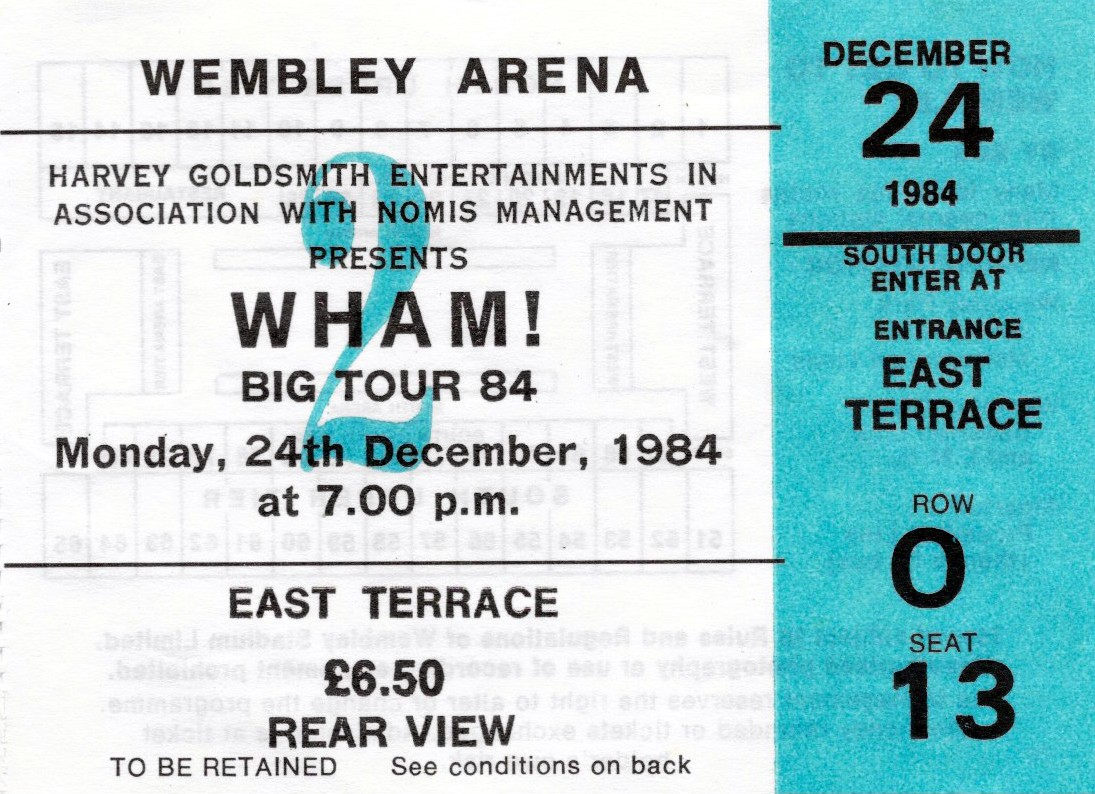 A ticket from a Wham! Big Tour' concert at Wembley Arena, on December 24th, 1984.